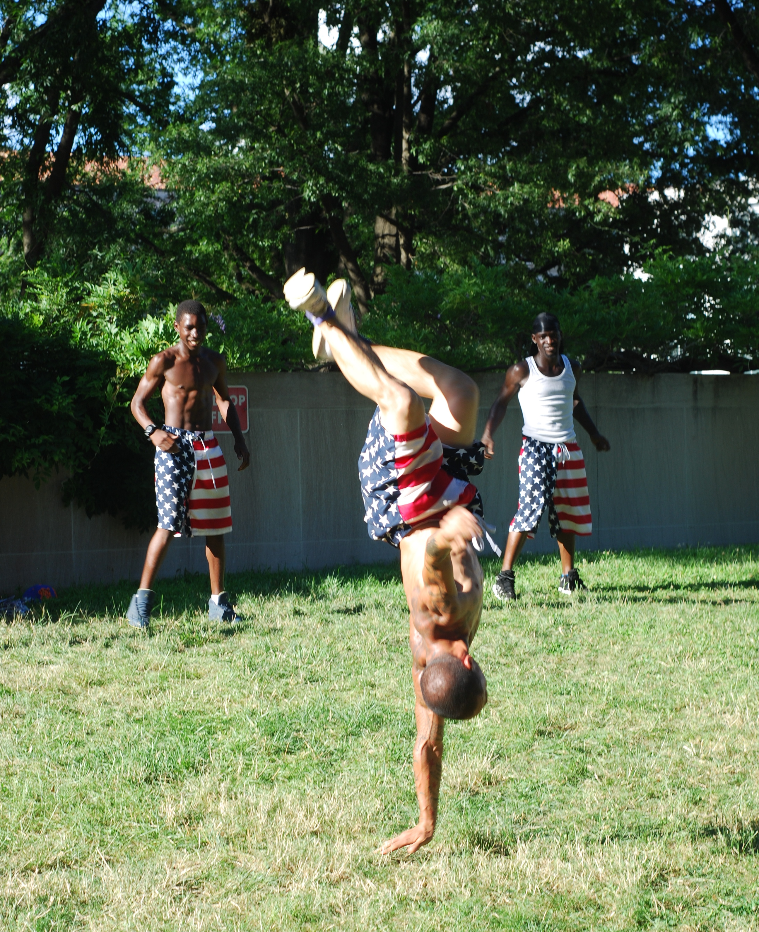 Two Steps Ahead - a break dancing street performance group in front of Natural History Museum at Washington D.C. : Hand Hops when one hand push off the ground while the legs kick back lifting the body.